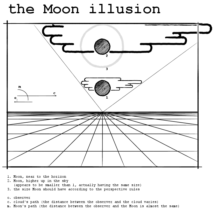 the Moon illusion - illustration of the apparent distance hypothesis (i.e. a cloud of a certain size at a certain height in the atmosphere subtends a smaller angle if it's lower towards the horizon than if it's more nearly overhead; since the moon subtends basically the same angle whether it's overhead or near the horizon, therefore it's perceived as larger near the horizon